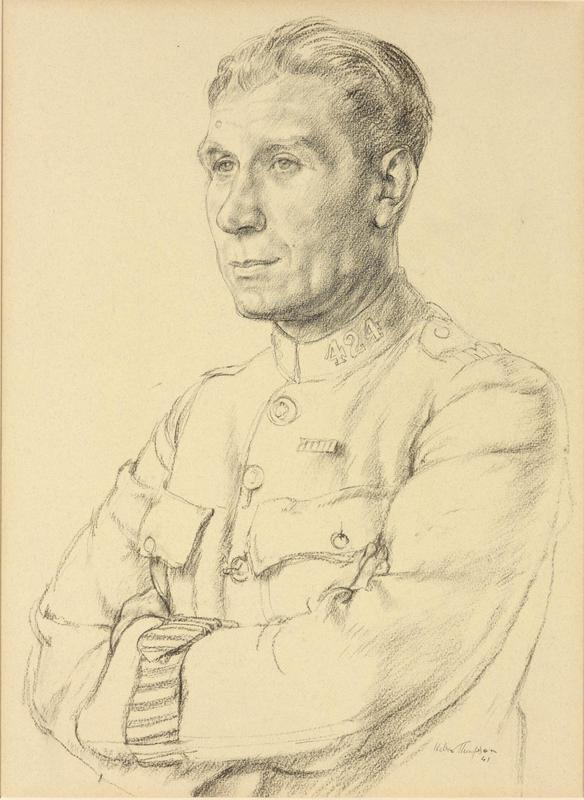 A half-length portrait of policeman Thomas Tanner in uniform with arms crossed & medal ribbon on chest